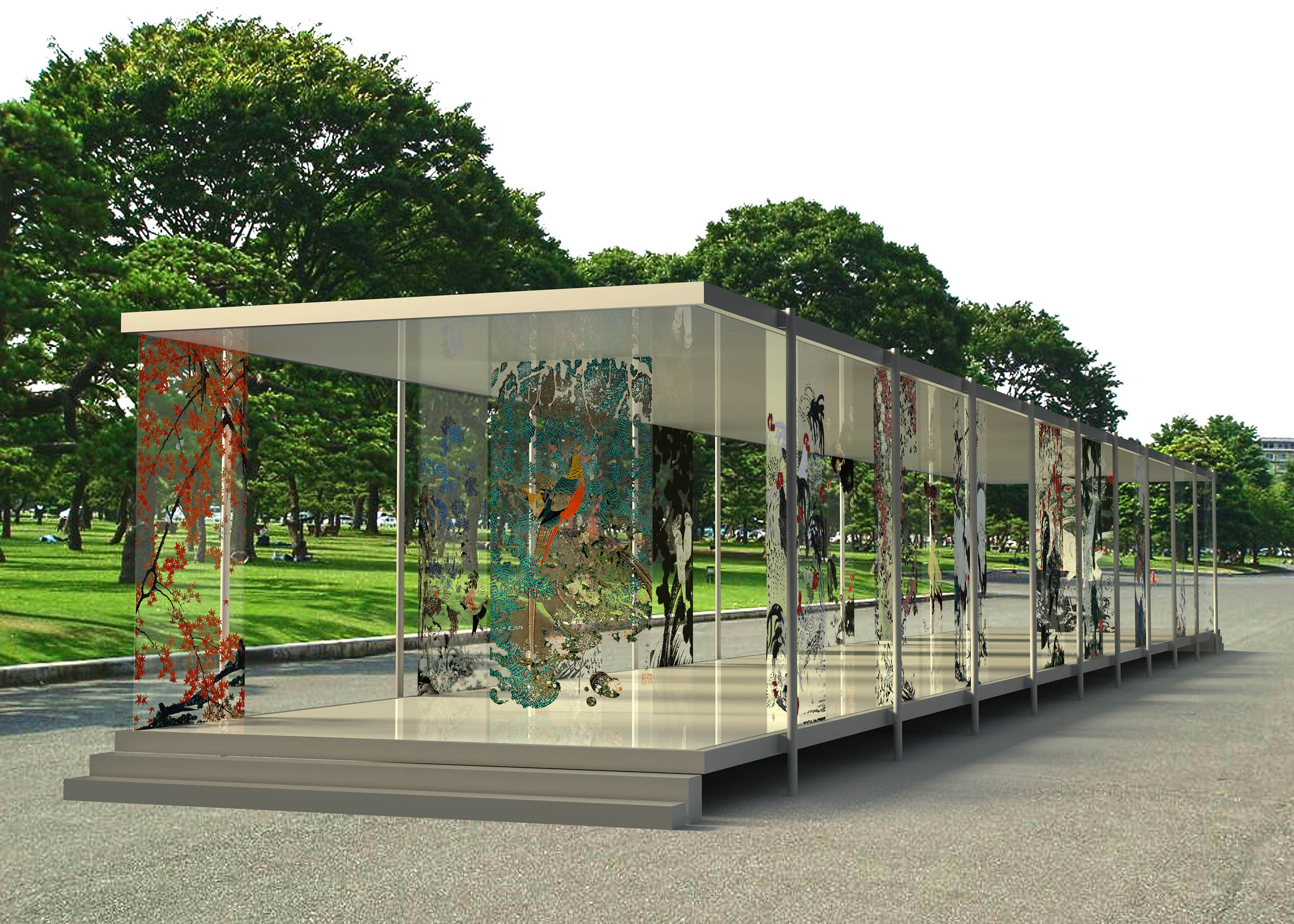 Djordje Alfirevic - Ito Jakuchu Inpired Pavilion